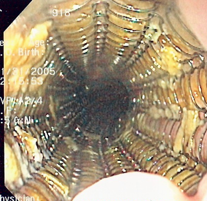 Endoscopic image of self-expanding metallic stent in esophagus. Photograph released into public domain on permission of patient. -- Samir धर्म 07:38, 2 June 2006 (UTC)